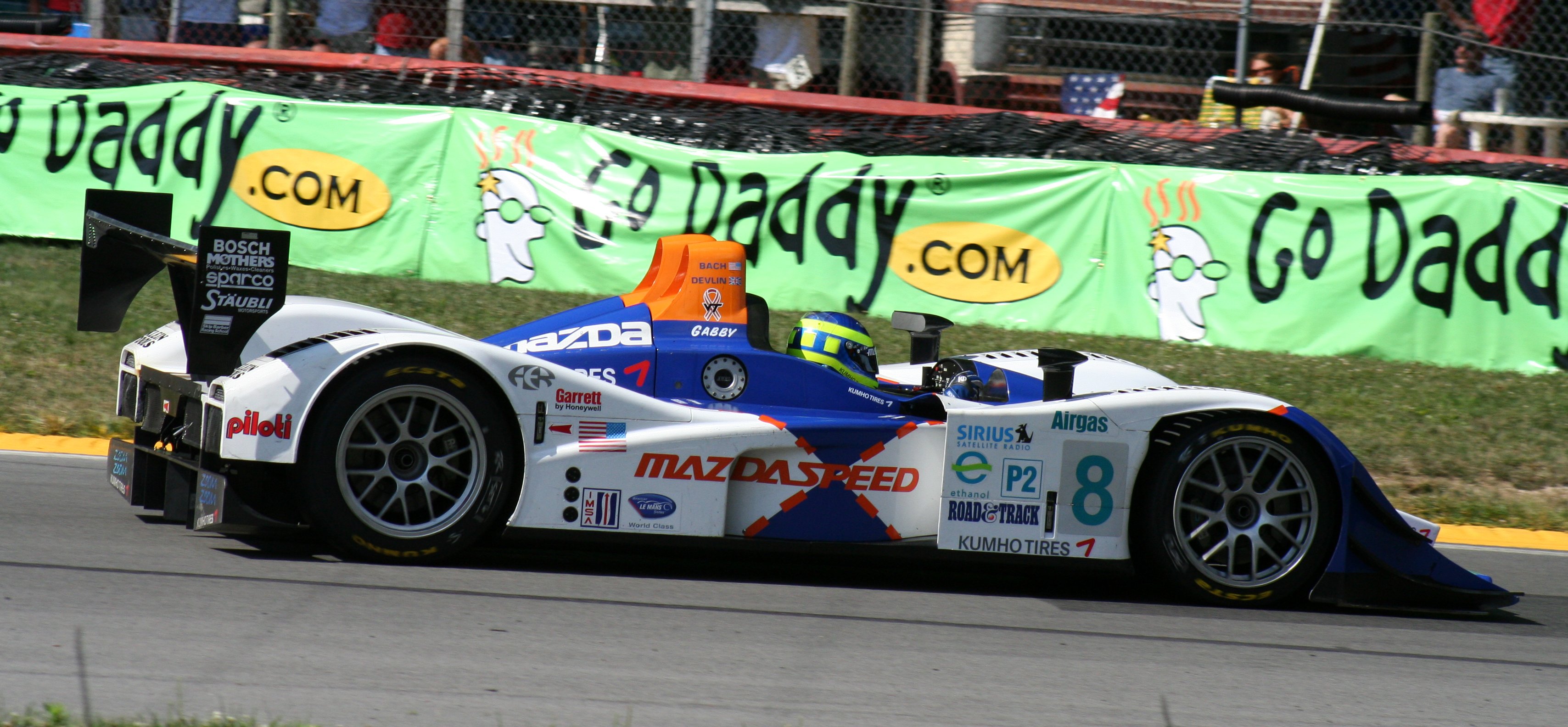 B-K Motorsports, Lola B07/46-Mazda in Mid Ohio 2007